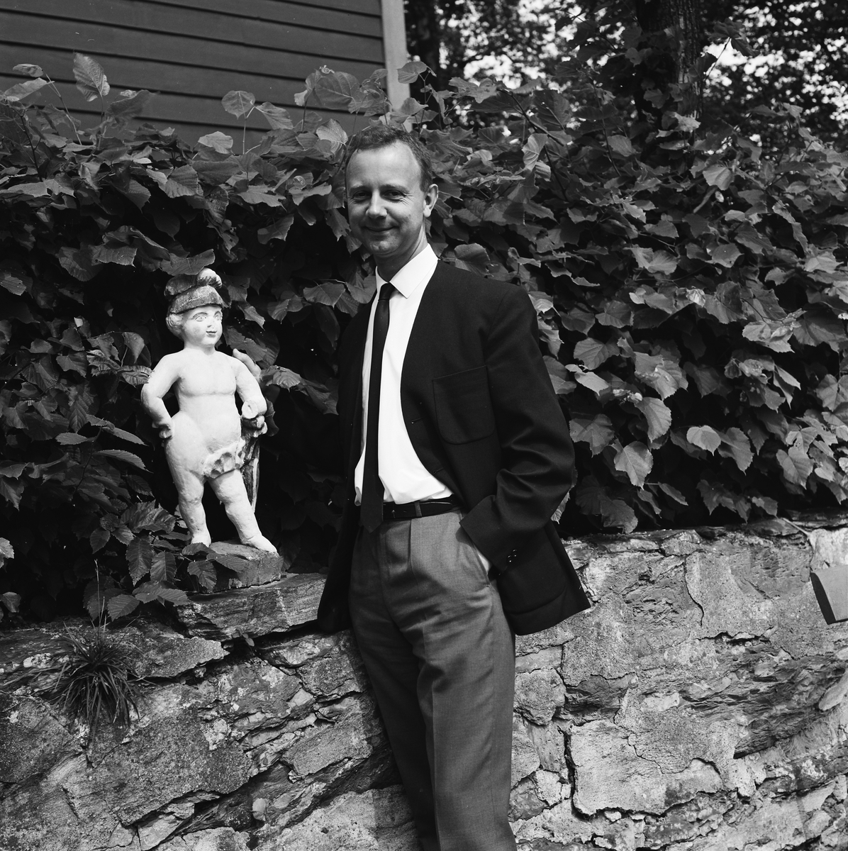 Norwegian conservationist Carsten Hopstock (1924–2014) at Norsk Folkemuseum (Norwegian museum of folklore/art at Bygdøy, Oslo)